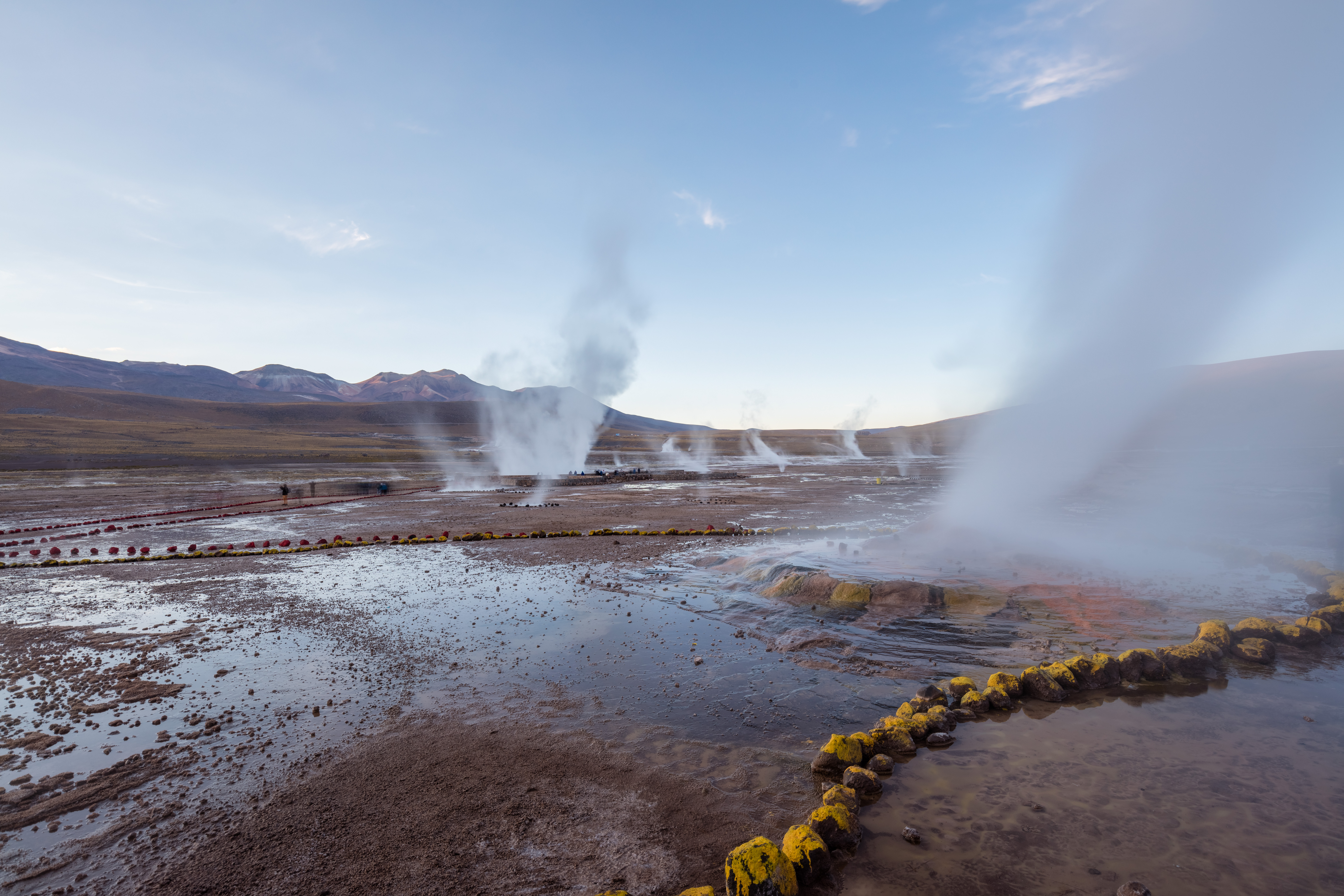 Geysers of Tatio, San Pedro de Atacama, Chile